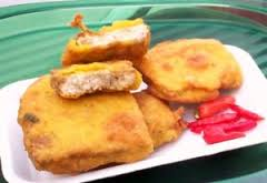 Tempe Menjes